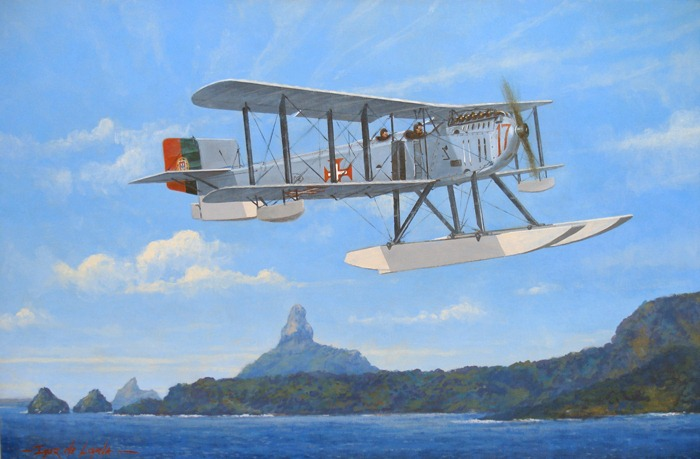 Fairey IIID - "Santa Cruz" – Aircraft used by Gago Coutinho and Sacadura Cabral to complete the first South-Atlantic Aerial Crossing, connecting Lisbon to Rio de Janeiro, on 17th June 1922. On display at the Air Museum, in Alverca. Acrylic on canvas